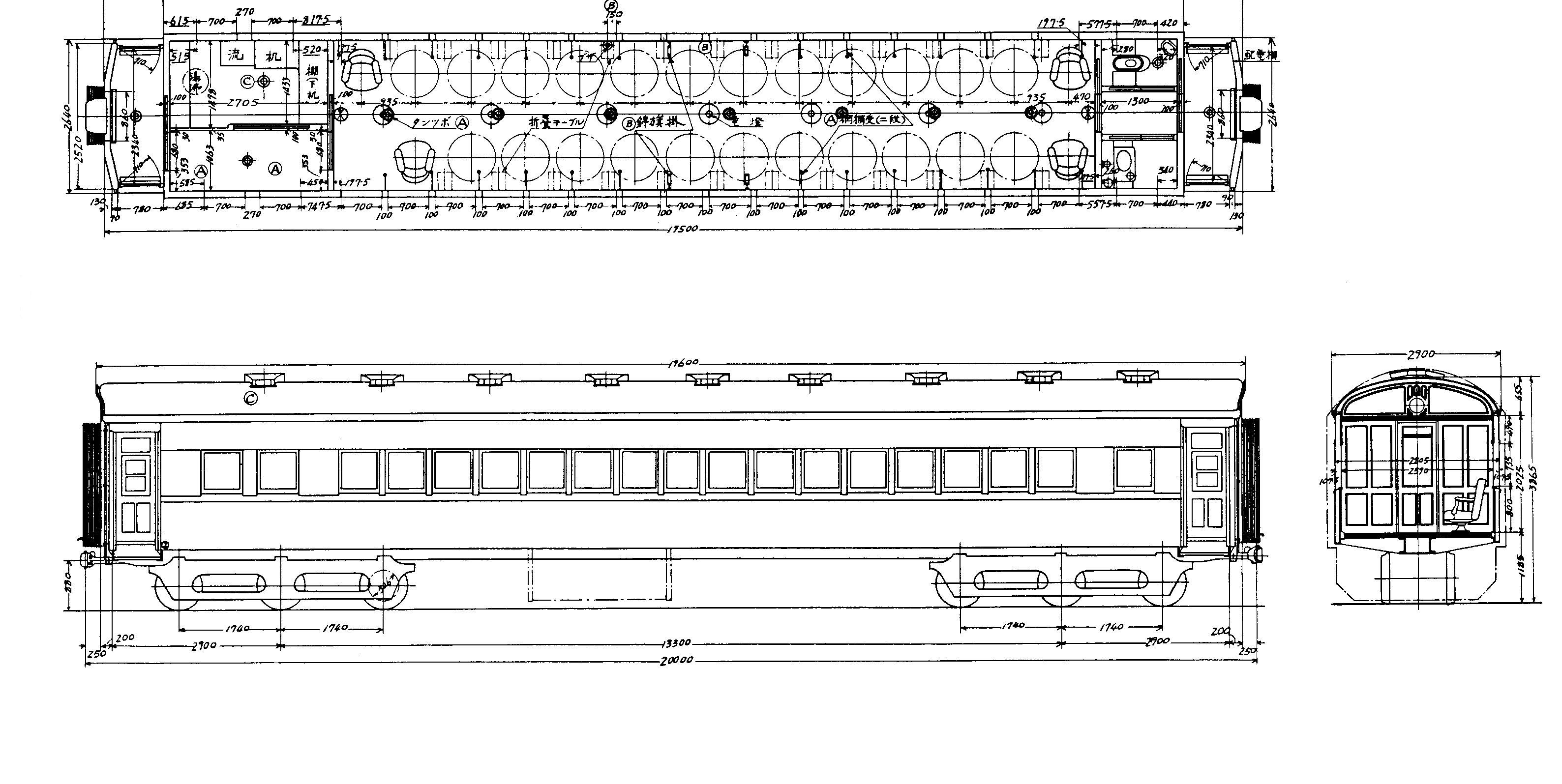 Type drawing of JGR's royal passenger car Gubusha No.330 (Original)